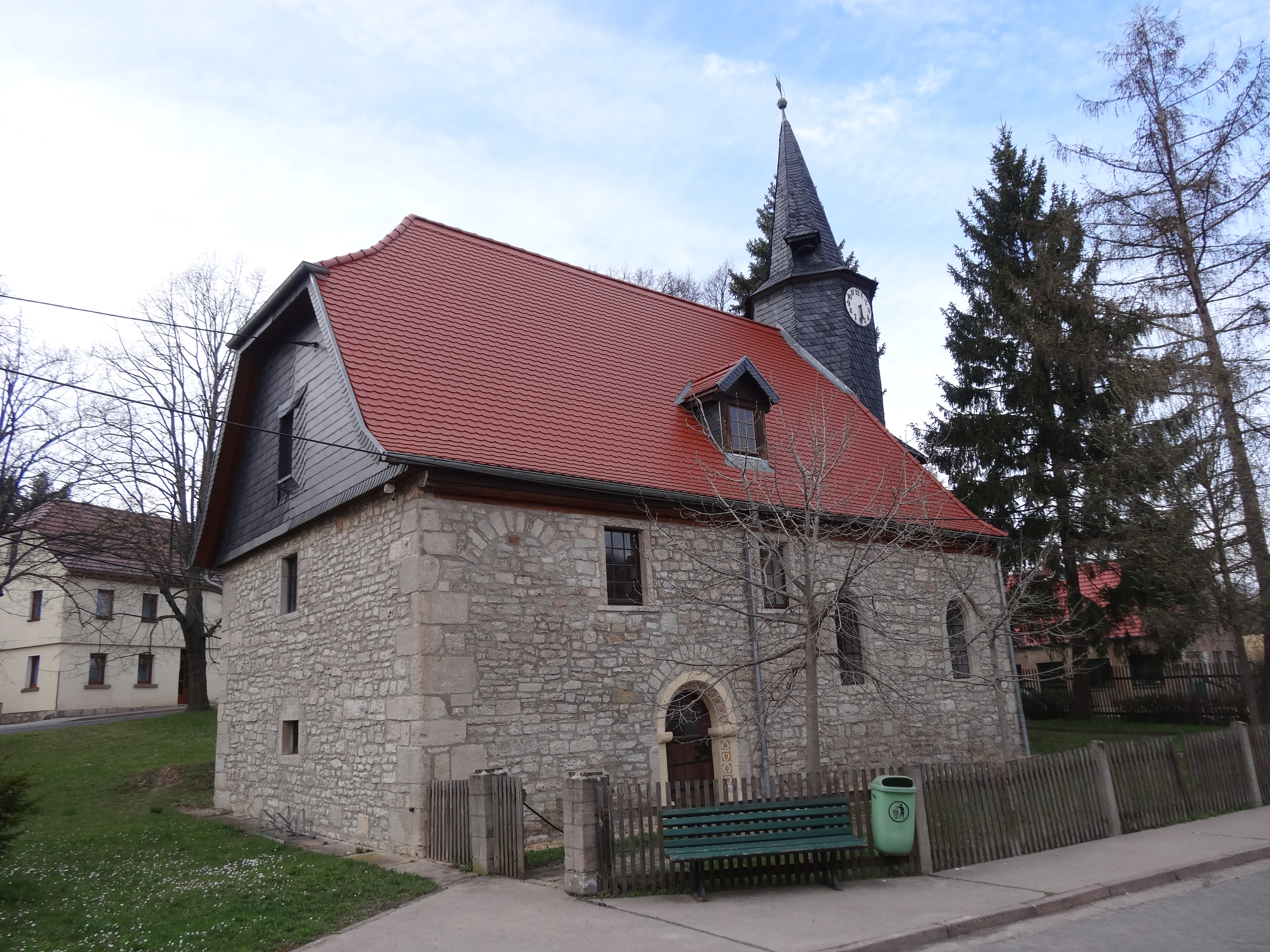 Church in Herressen, Apolda, Thuringia, Germany